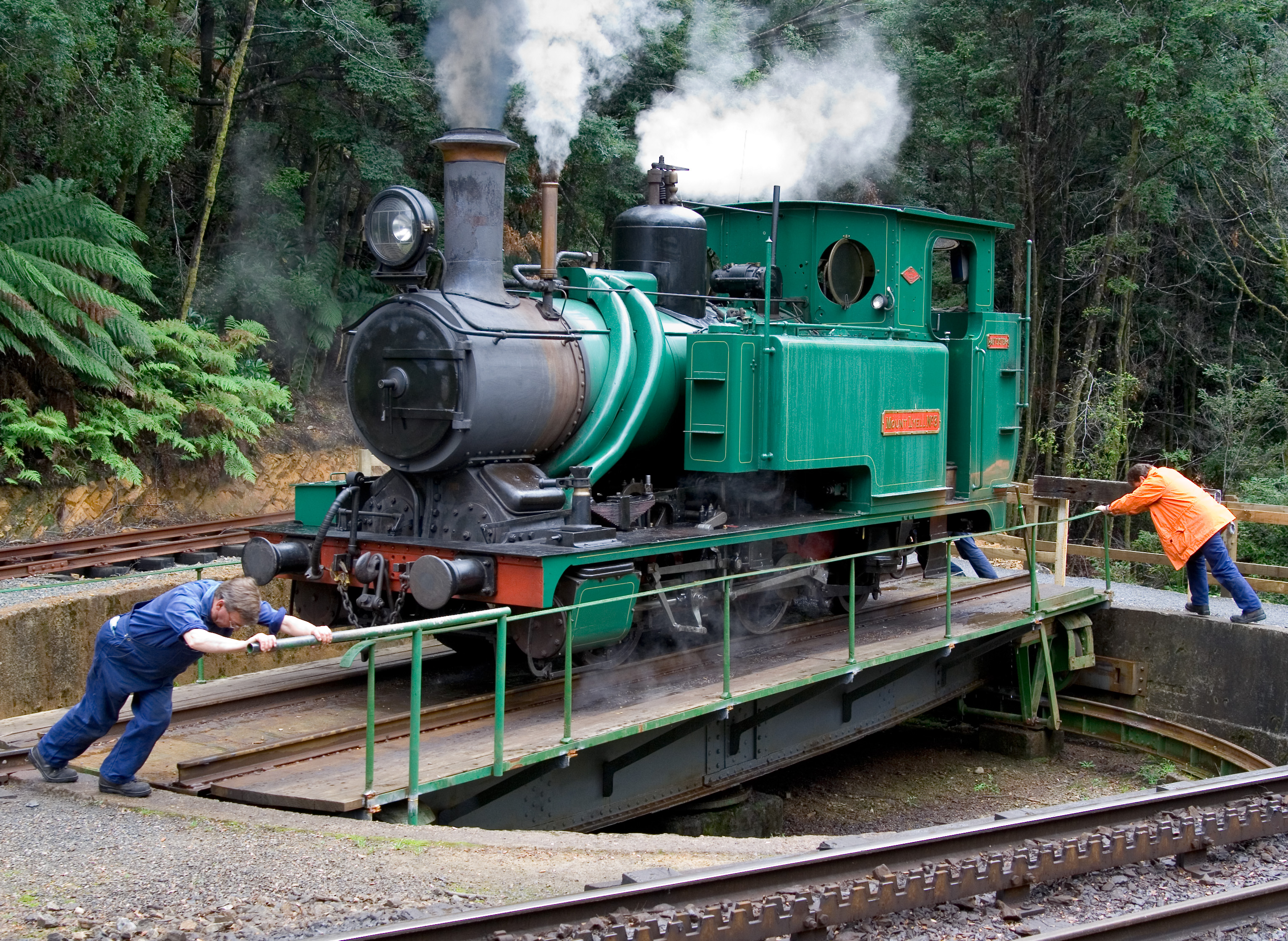 One of the Abt Steam locomotives of the former Mount Lyell railway on the West Coast Wilderness Railway, Western Tasmania, AustraliaTasmania ABT railway